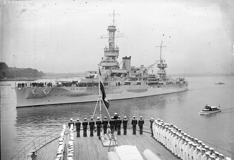 American Battleships vist Germany for the first time since the War! For the first time since the end of the war, a squadron consisting of the American battleships "Arkansas", "Florida" and "Utah" arrived in Kiel under the command of Admiral Cluverzius. To greet them, a 21 gun salute was offered by the German vessels "Hessen" and "Schleswig Holstein." Photo from "Schleswig Holstein" of the large American flag ship "Arkansas" during her arrival in Kiel harbor. In the foreground a parade formation of German Navy sailors. Information added by Wikimedia users.Original caption: "Bundesarchiv, Bild 102-10062Foto: o.Ang. I 5. Juli 1930" — removed caption